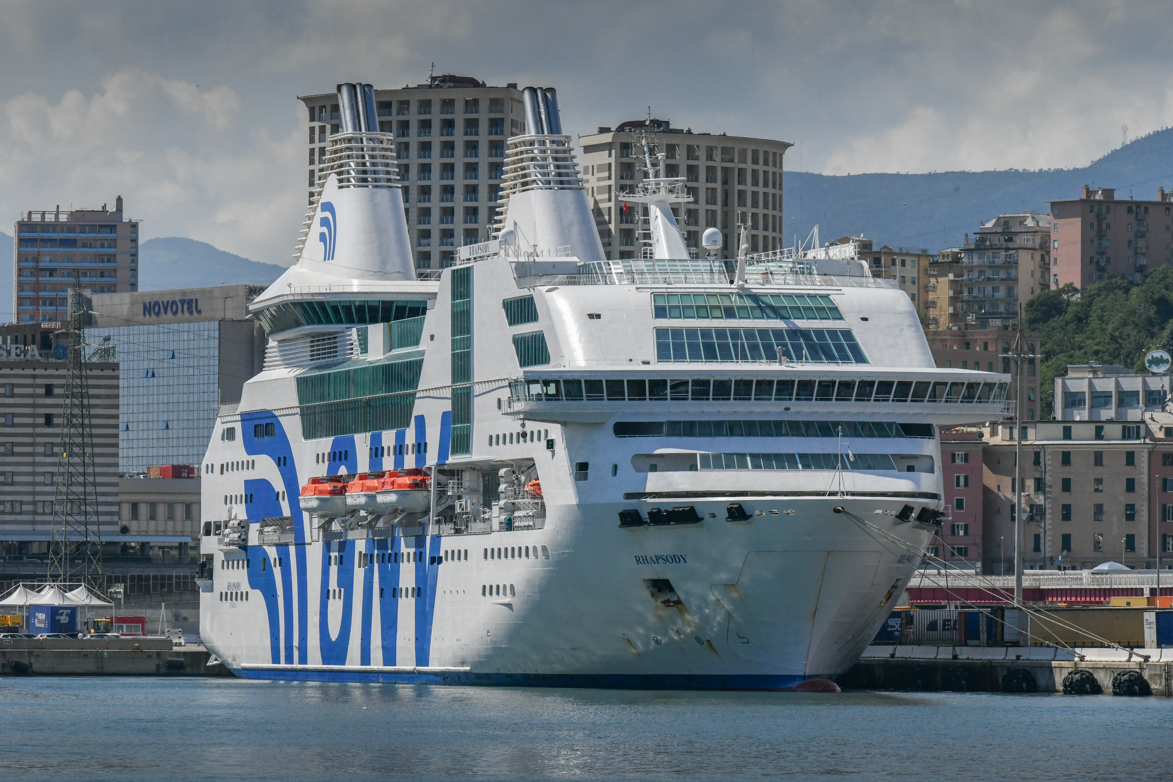 'Rhapsody' GNV Ferry at Genoa